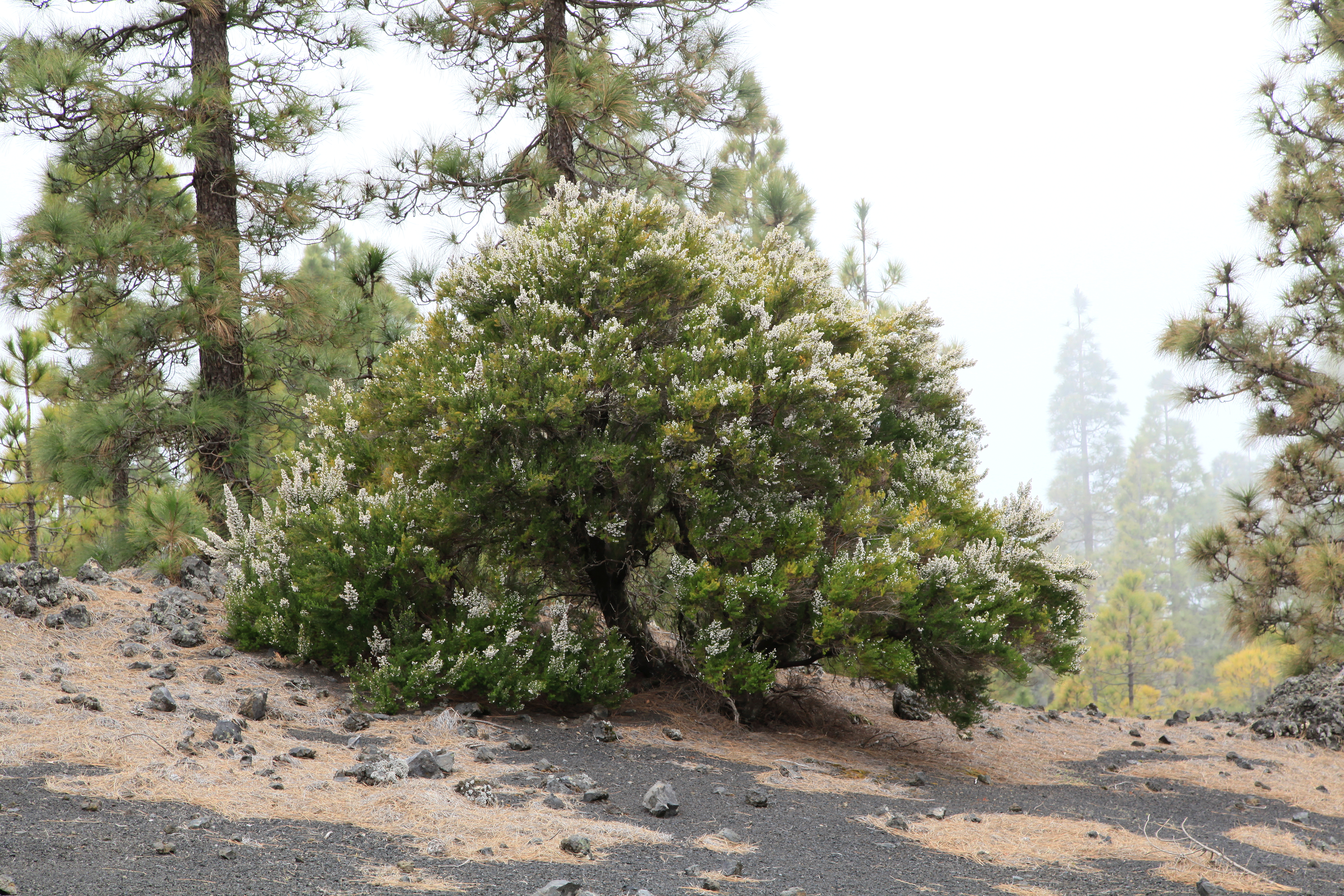 Erica arborea growing at Llano del Jable, LP-301 in El Paso (La Palma), La Palma, Canary Island, Spain